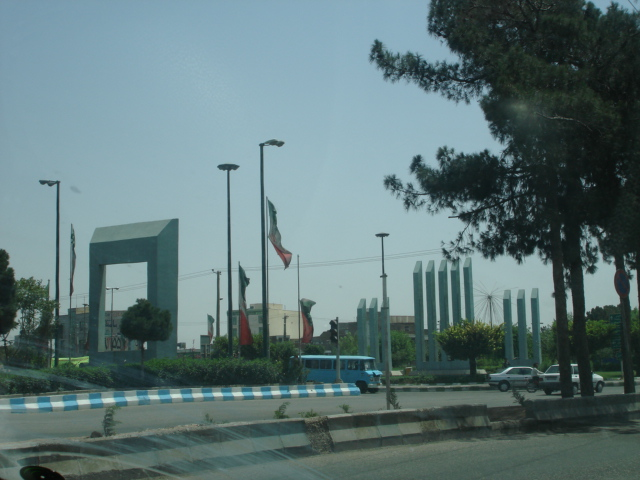 View of Saveh Azadi square